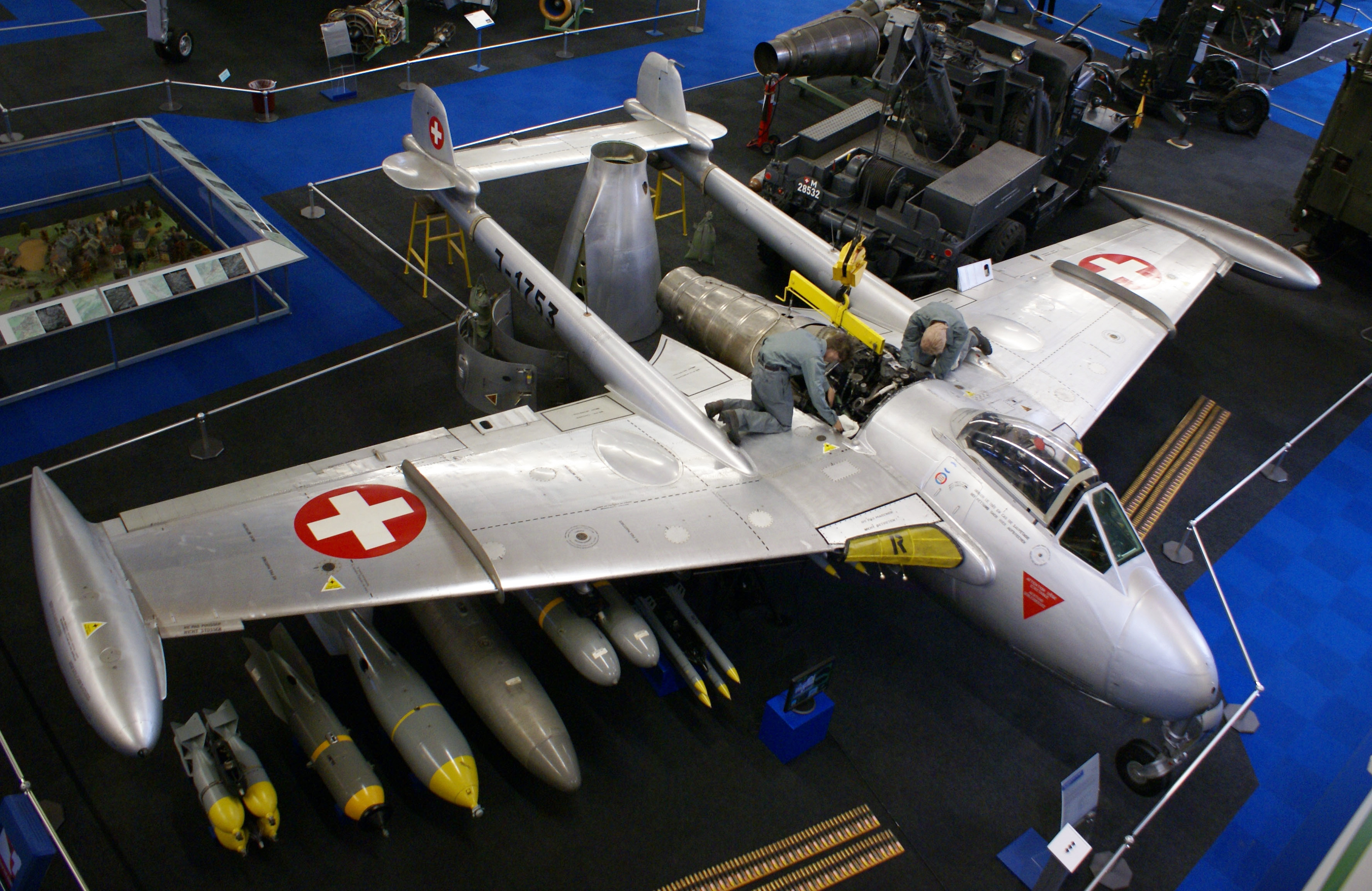 De Havilland DH-112 Mk 4 "Venom" fighter-bomber aircraft as used by the Swiss Air Force from 1956 to 1984. Shown here while being serviced and with various armaments